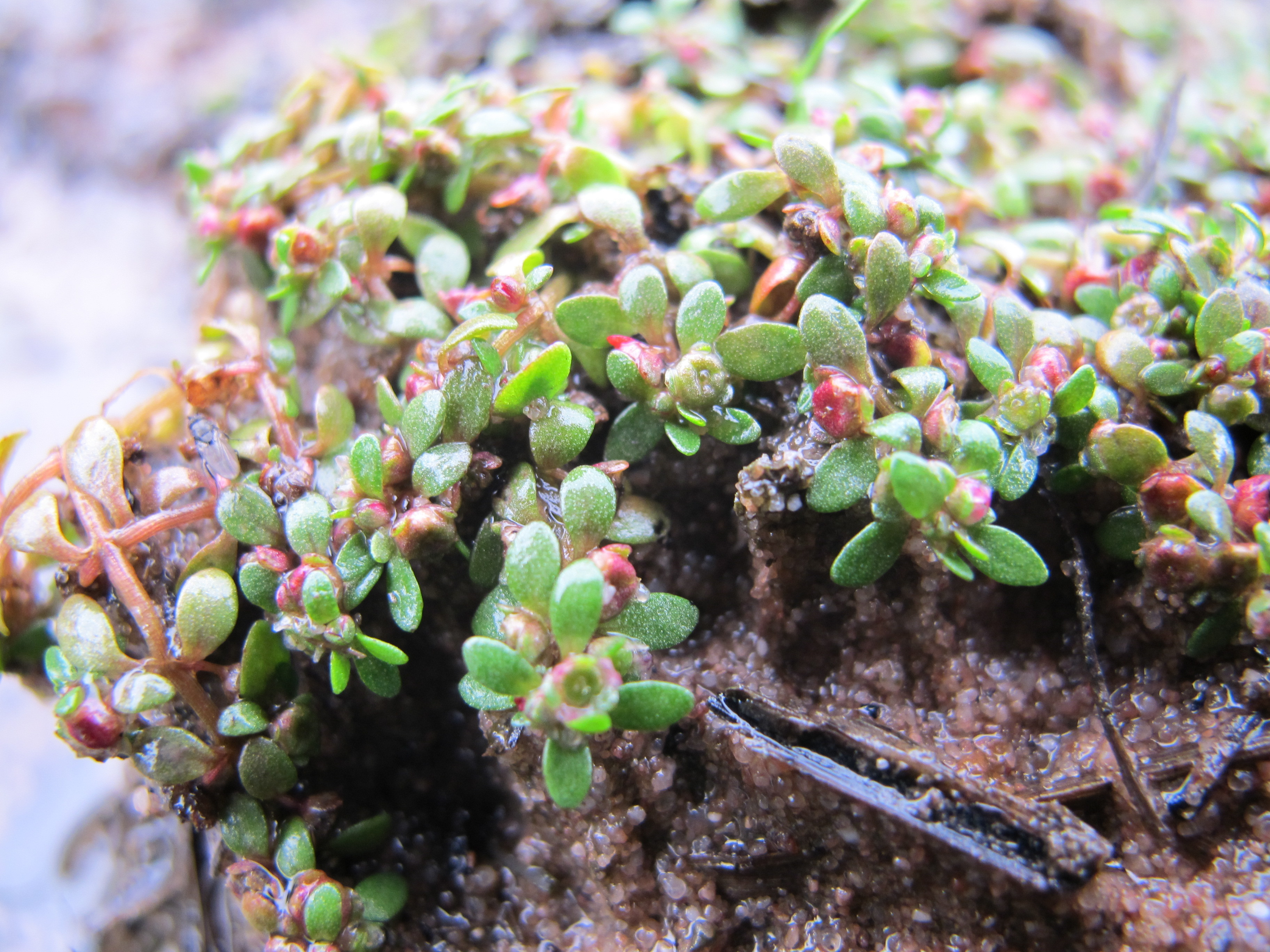 Elatine hexandra